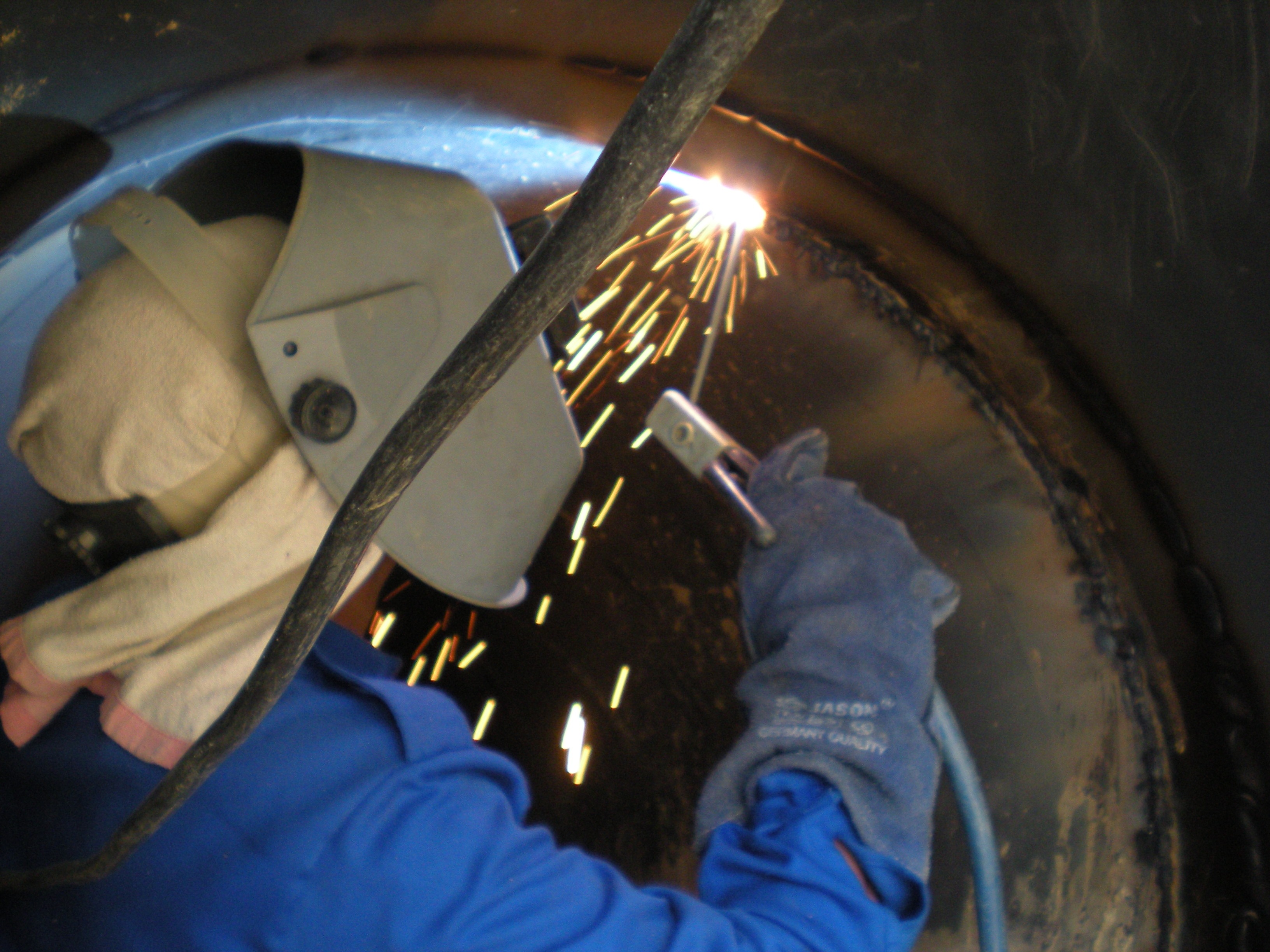 welder 6GRG